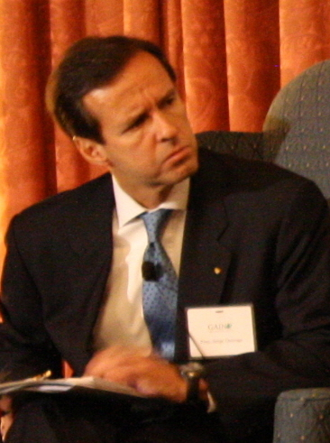 Former President Jorge Quiroga of Bolivia, 2012 GAIN Annual Meeting & Reception